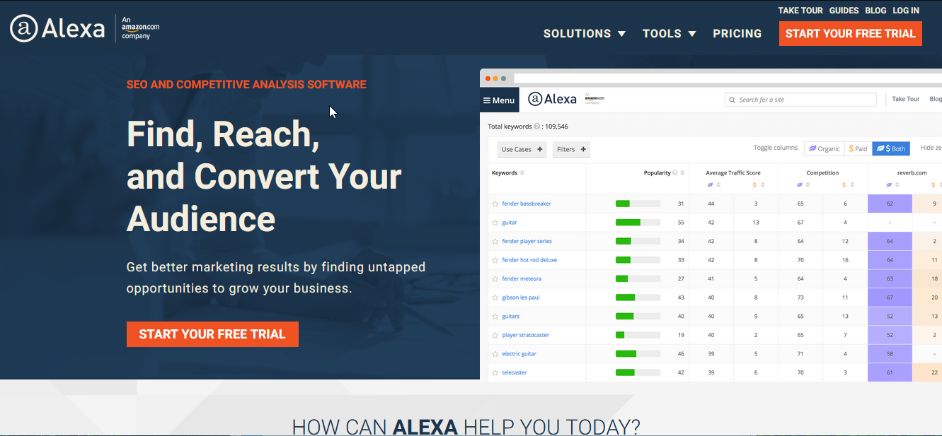 Screenshot of Alexa internet